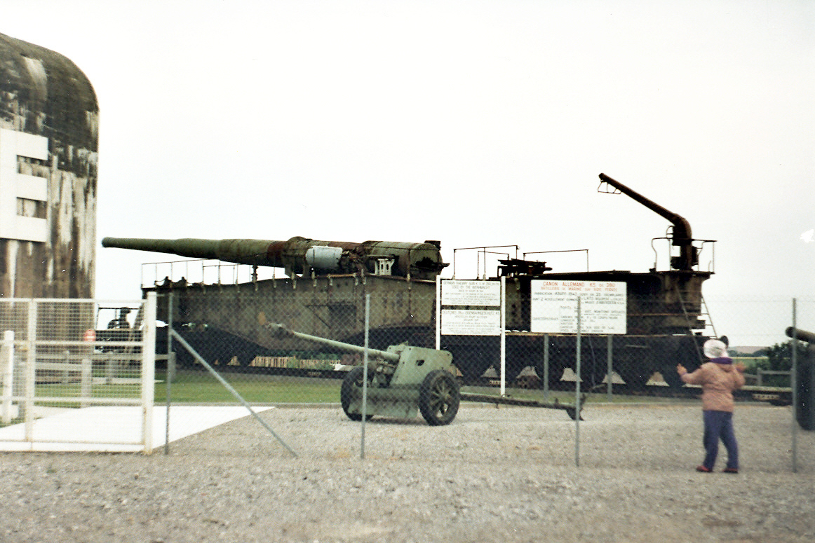 Batterie Todt - War Museum in Audinghen, France